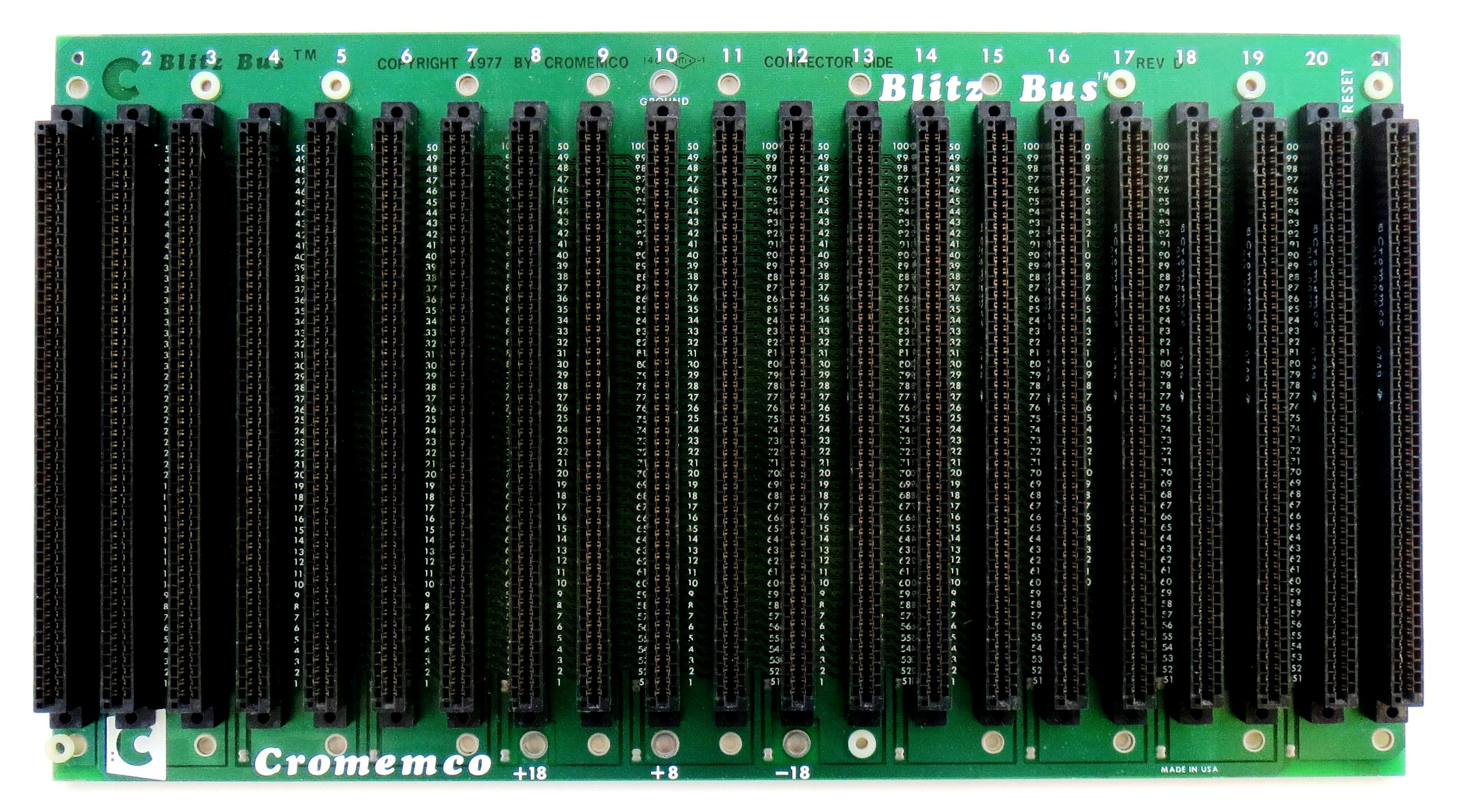 Cromemco S-100 "Blitz Bus" Motherboard (Backplane for S-100 Bus)